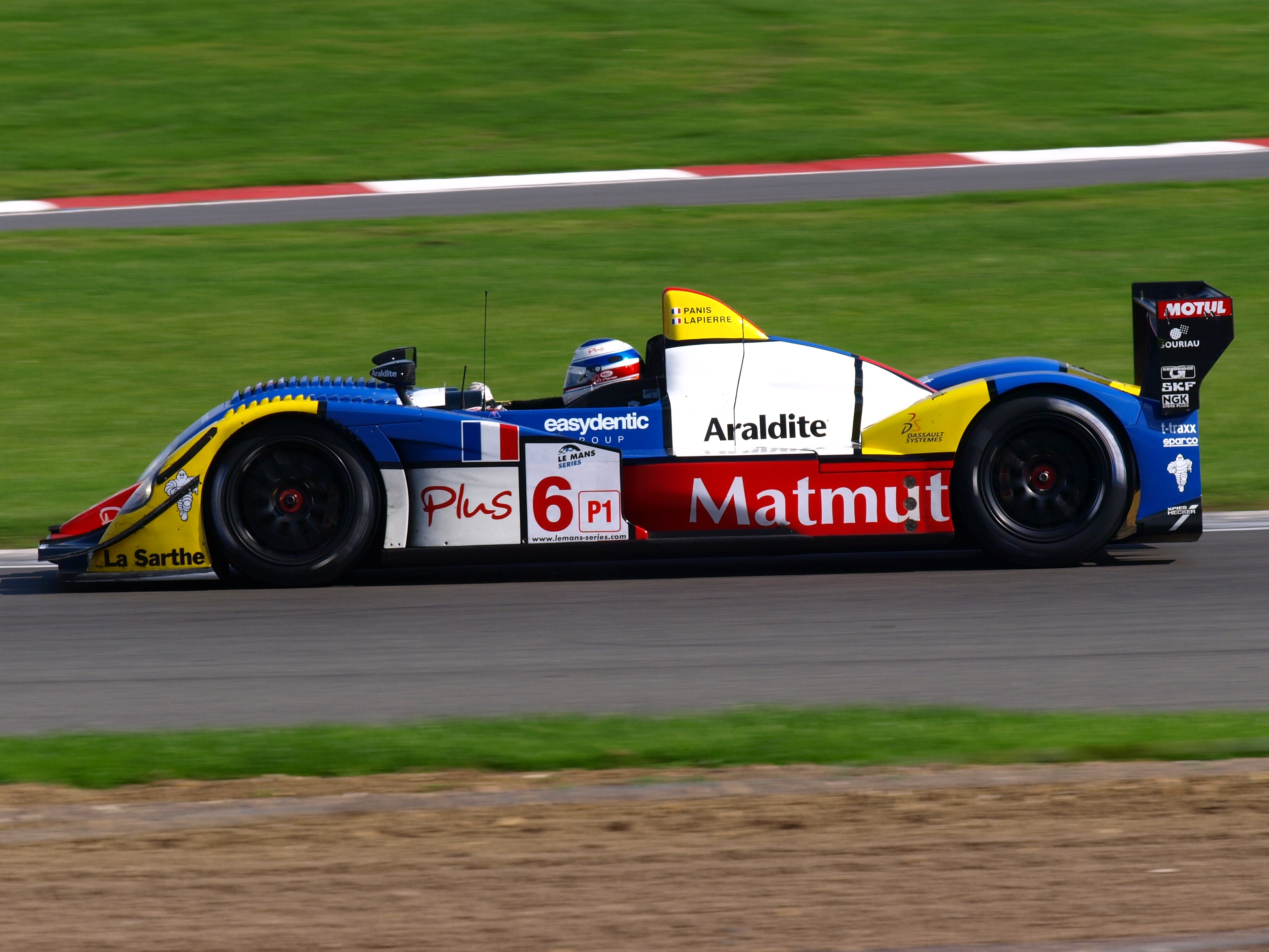 Team Oreca-Matmut's Courage-Oreca LC70-Judd at the 2008 1000km of Silverstone